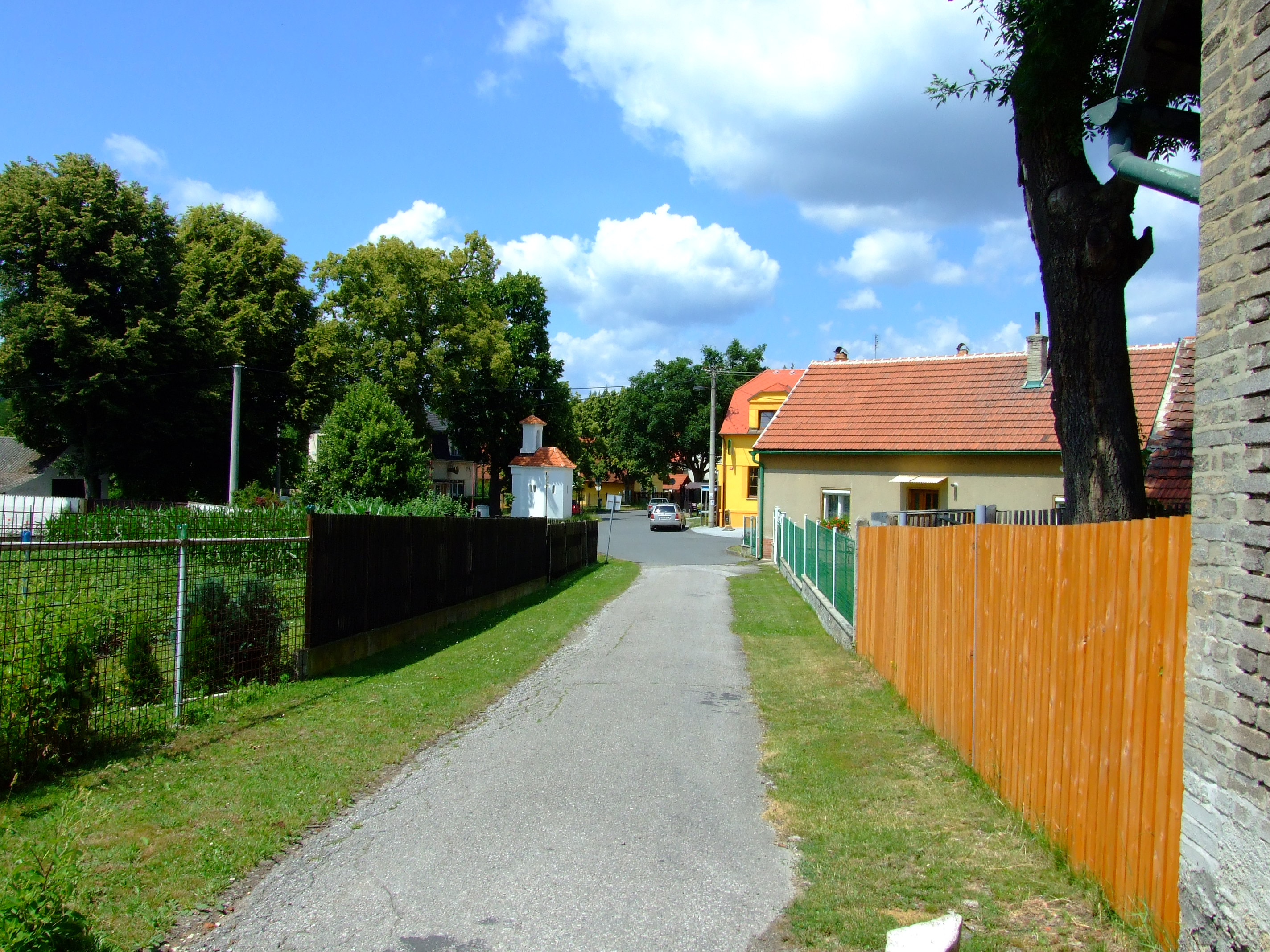 Malé Kyšice village in Central Bohemian region, CZhelp